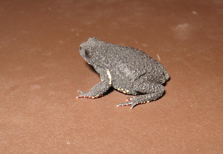 Melanophryniscus atroluteus